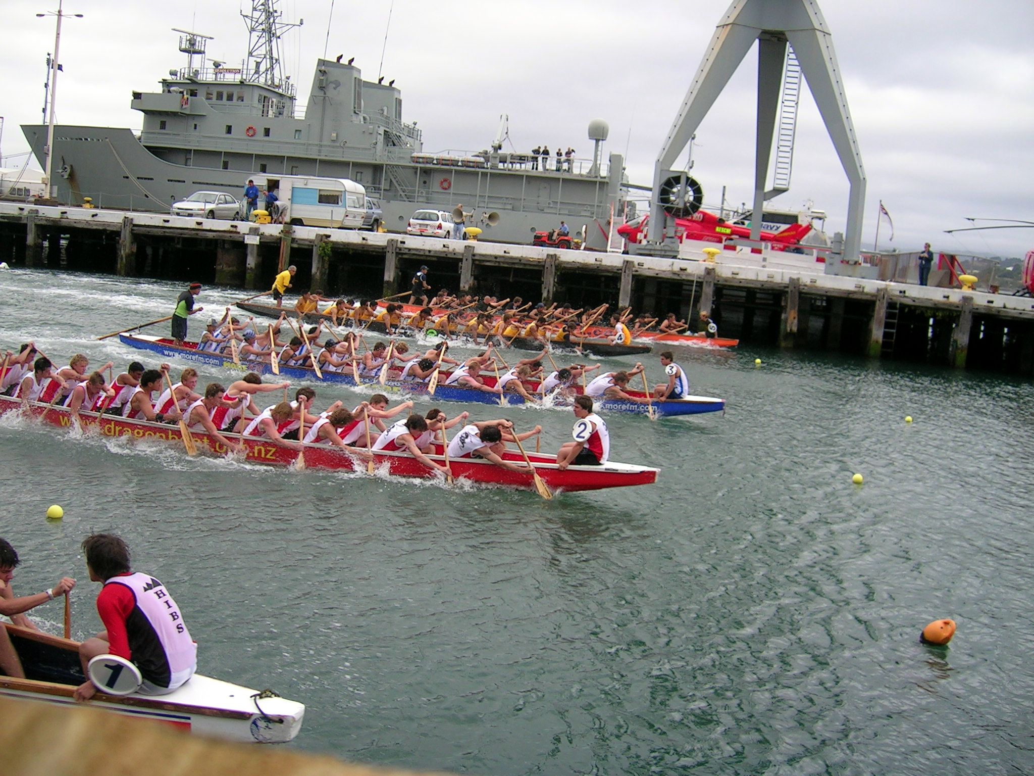 Contestants in the Wellington Dragon Boat Festival 2005, Wellington Harbour, New Zealand